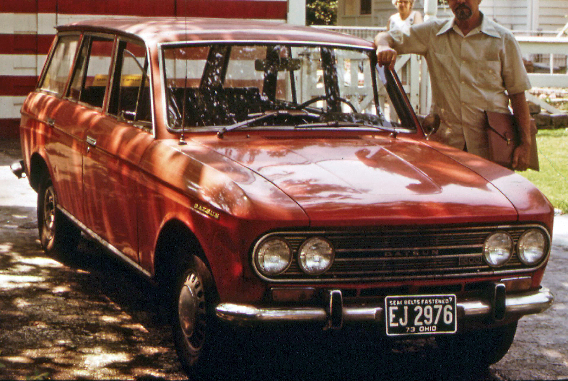 US market 1967 Datsun 1600 Wagon, also known as the 411 series Bluebird, with 1600cc R16 engine. Crop of File:THE STALEY'S, RESIDENTS OF SUBURBAN LAKEWOOD, RECENTLY SPRUCED UP THE DOORS OF THEIR 50-YEAR-OLD GARAGE WITH RED... - NARA - 550148.jpg by Frank John Aleksandrowicz.